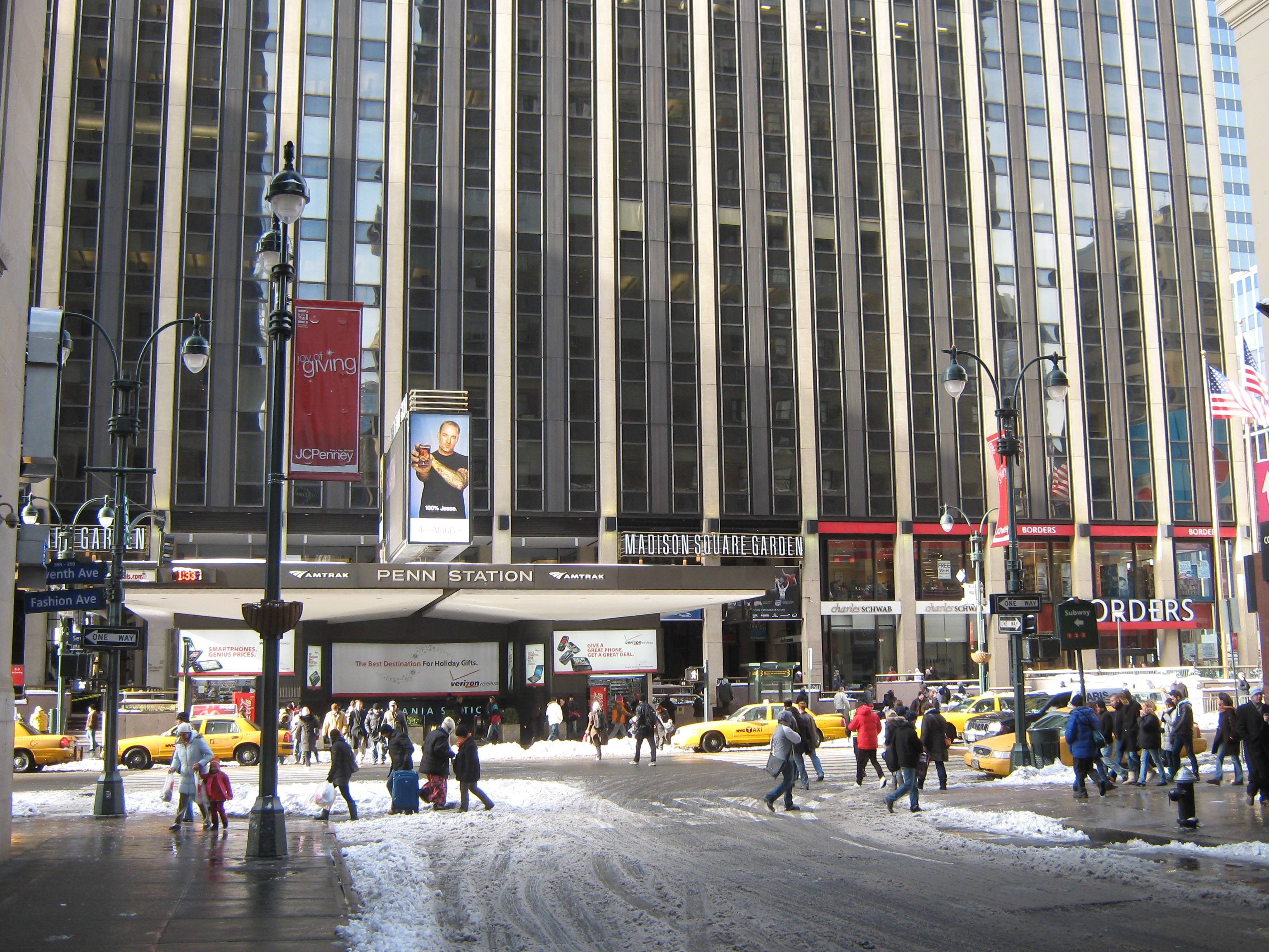 Pennsylvania Station, Manhattan, New York. Photograph taken near corner of Seventh Avenue and West 32d Street.